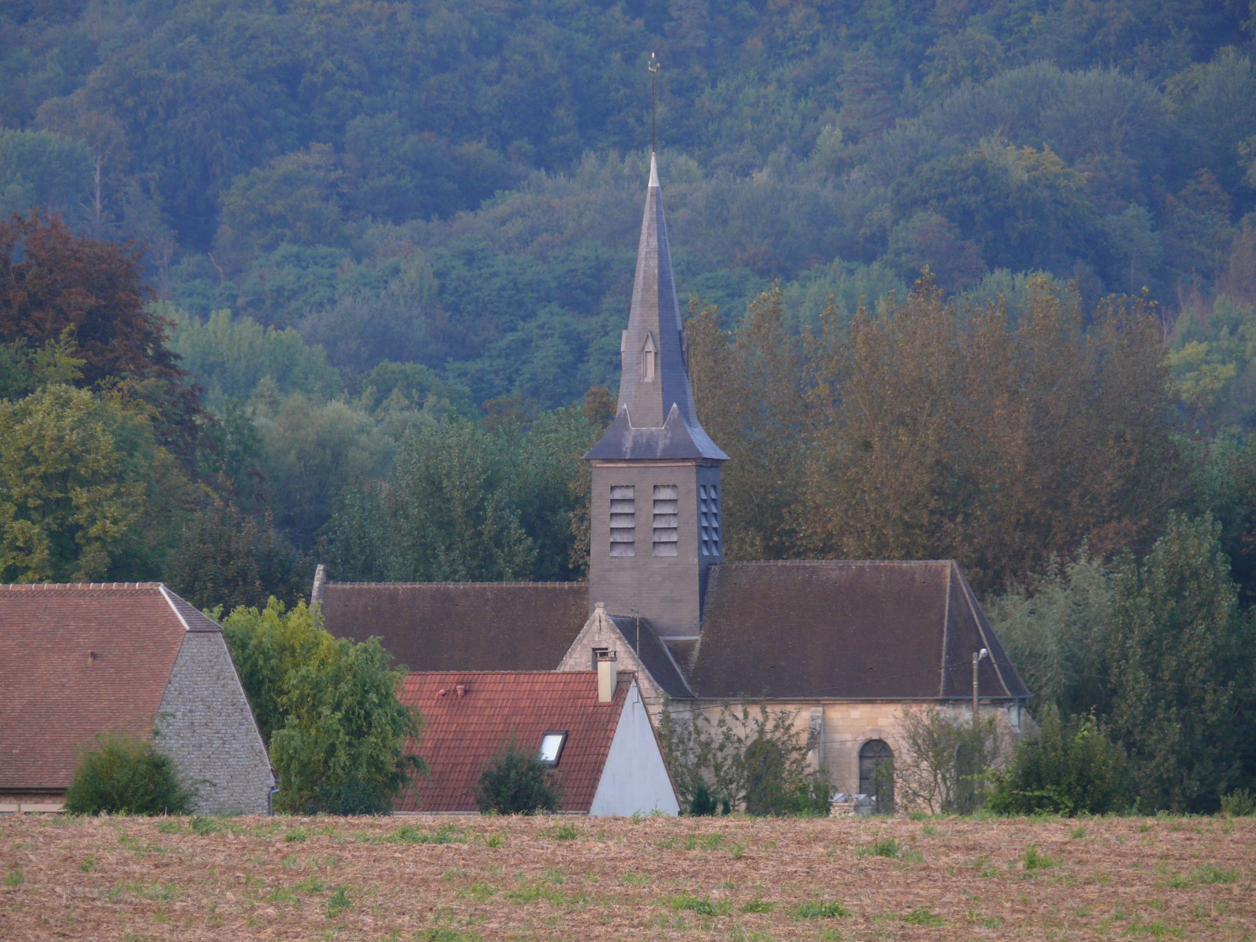 Saint-Medard's church of Bienville (Oise, Picardie, France).